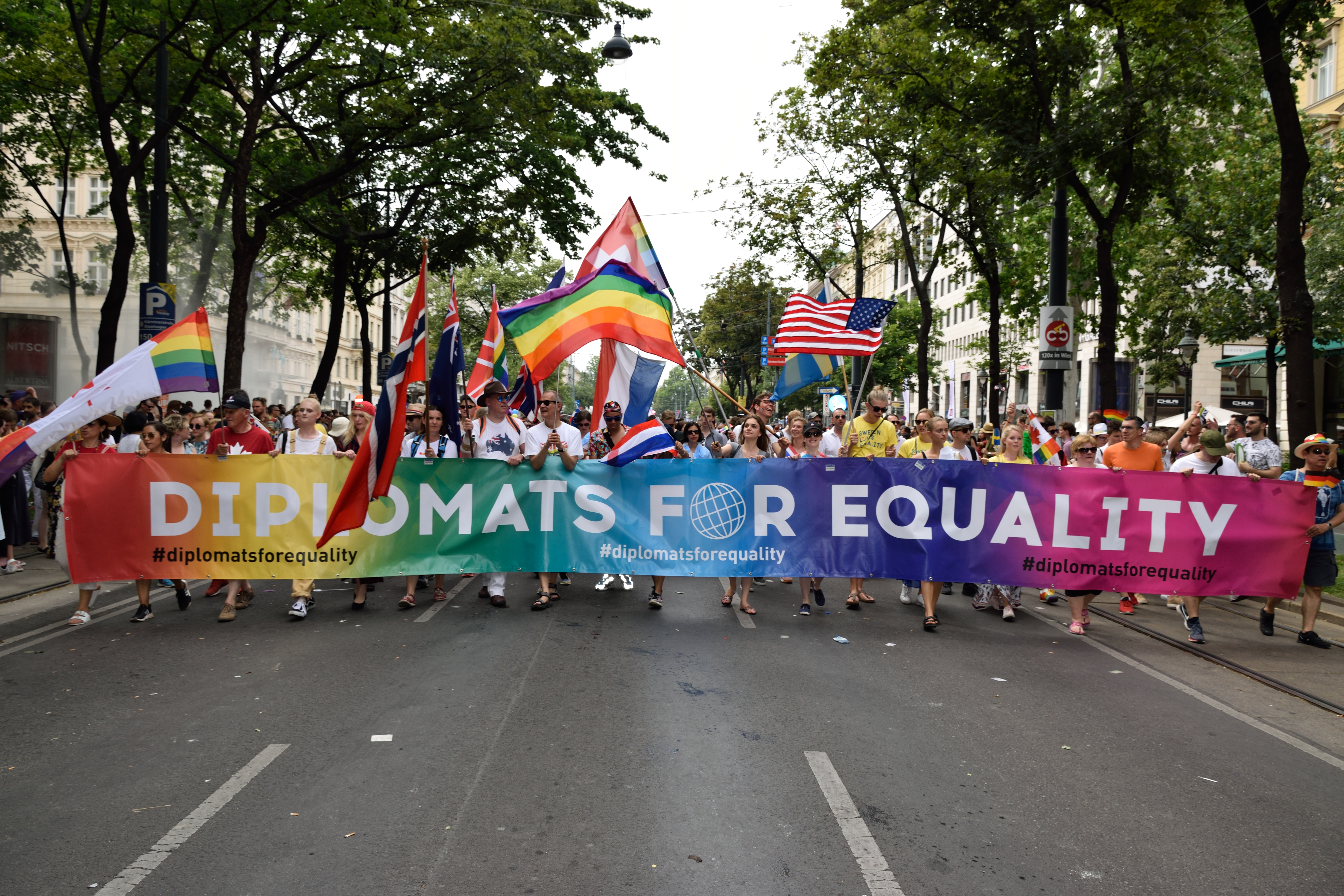 Photo taken during meta:Wikipedia for Peace/Europride Vienna 2019Location: austriaEvent type: europrideDate or year: 2019